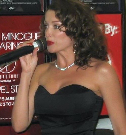 Dannii Minogue during an instore appearance in Melbourne.